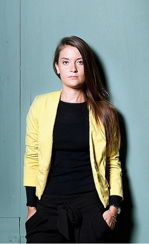 Christina Tscharyiski, Director